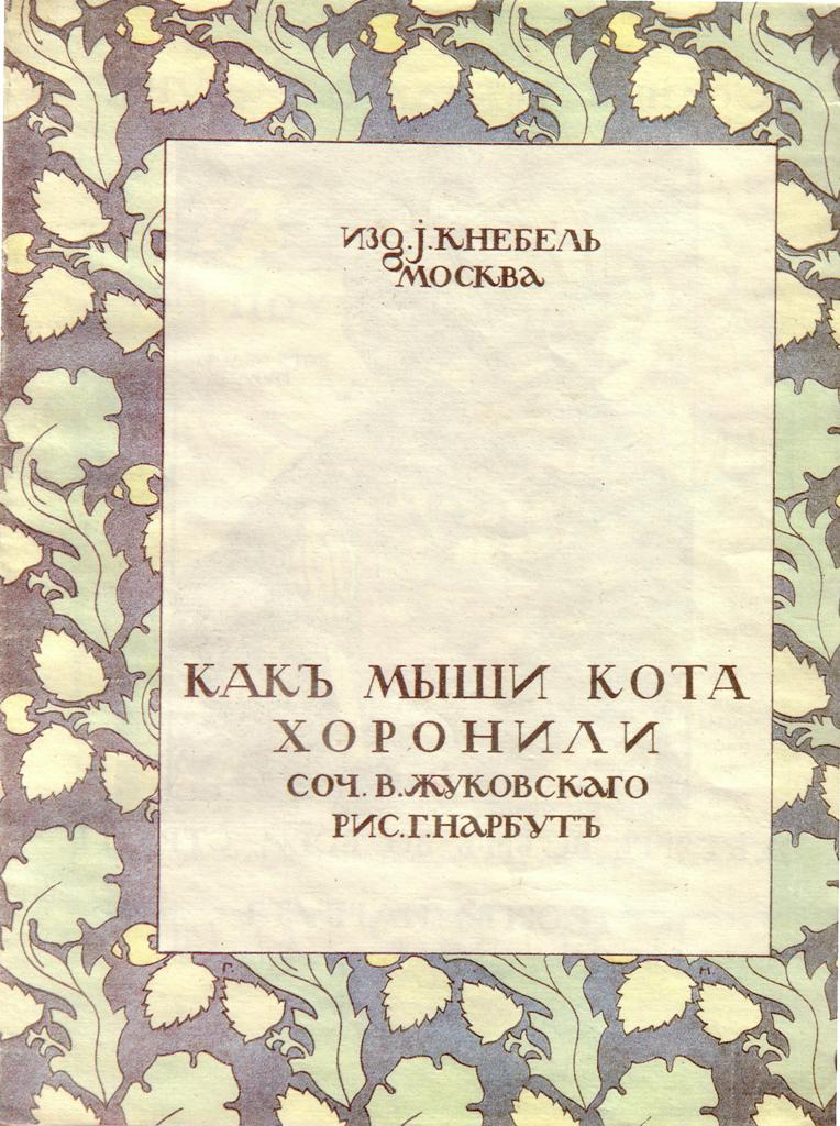 G. I. Narbut. A cover to the book "As mice of a cat buried"